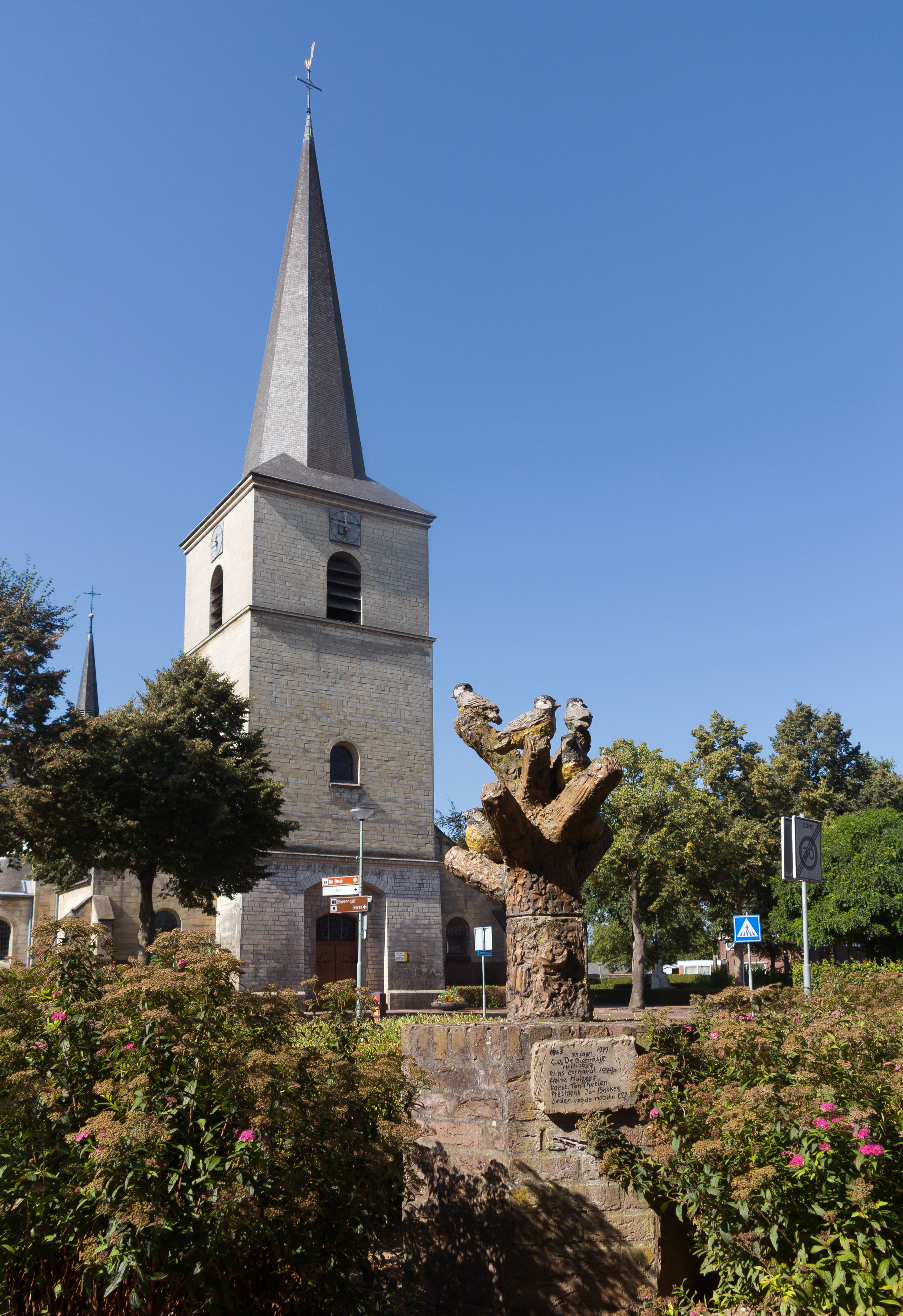 Posterholt, carnaval sculpture before the church (de Sint-Matthiaskerk)